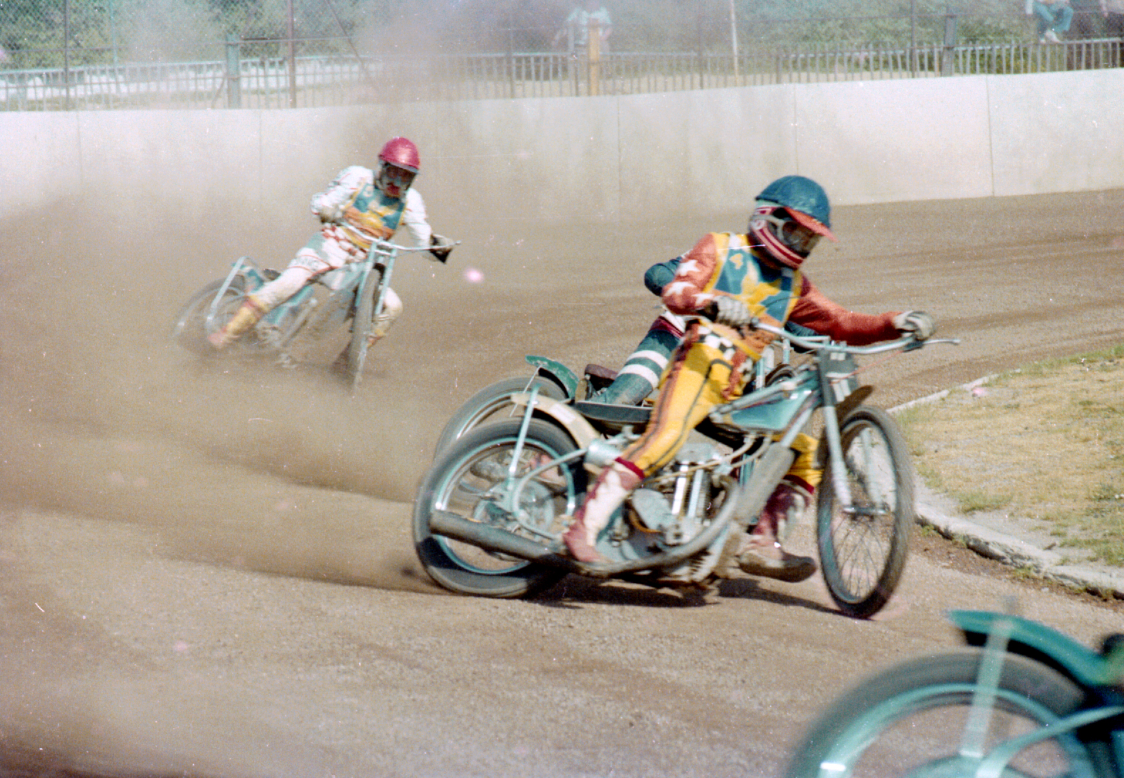 Eastbourne Eagles. home match against Oxford Cheetahs 1976